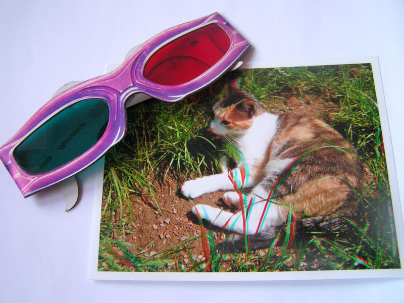 glasses and anaglyph picture